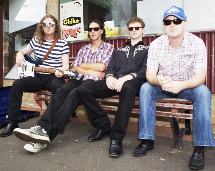 Promo photo of the Leadfinger (band) at Balgownie Chip Shop